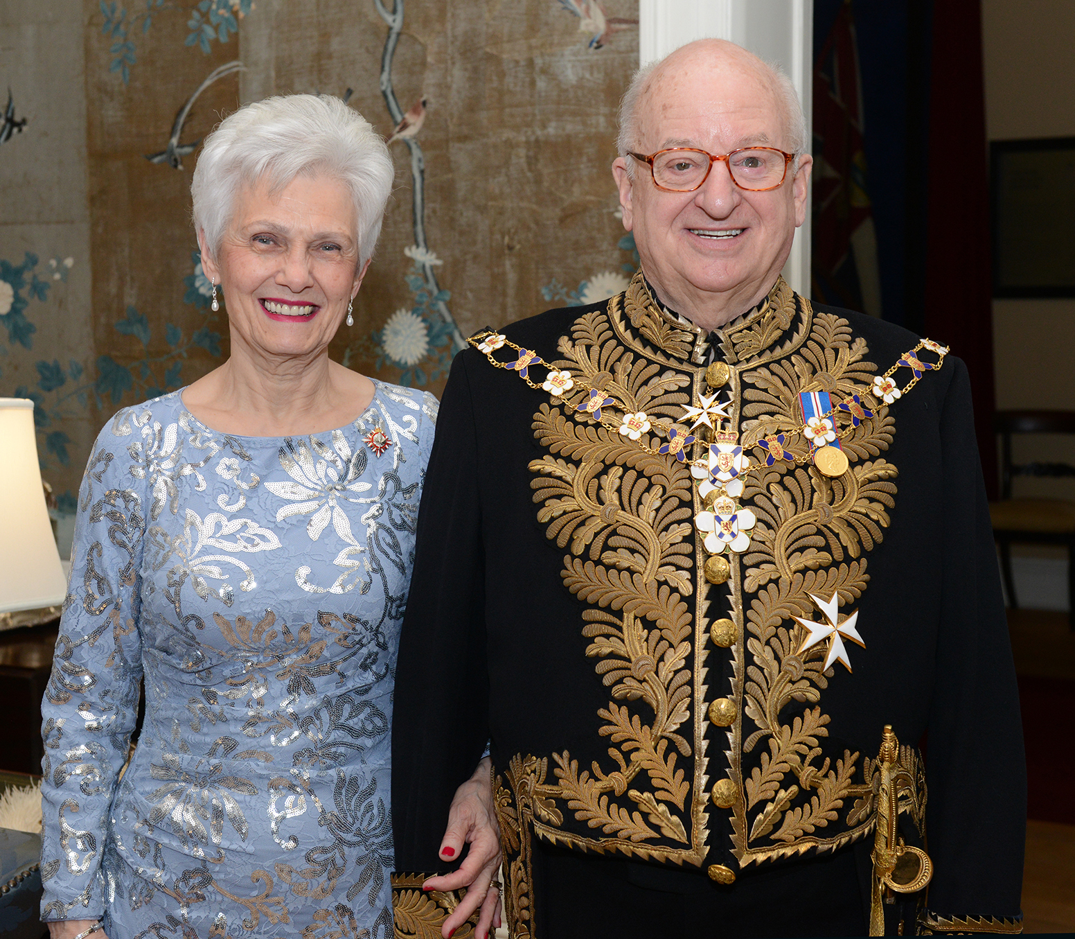 Photo of the Honourable Arthur J. LeBlanc, ONS, QC, Lieutenant Governor of Nova Scotia in the 2nd class half-dress civil uniform and wearing the Chancellor's Chain of the Order of Nova Scotia, insignia of Knight of Grace of the Most Venerable Order of the Hospital of St. John of Jerusalem and the Queen Elizabeth II Golden Jubilee Medal, along with Mrs. Patsy LeBlanc. Photo taken in the Drawing Room at Government House Halifax on 1 January 2020 as part of the annual New Year's Day Levee.